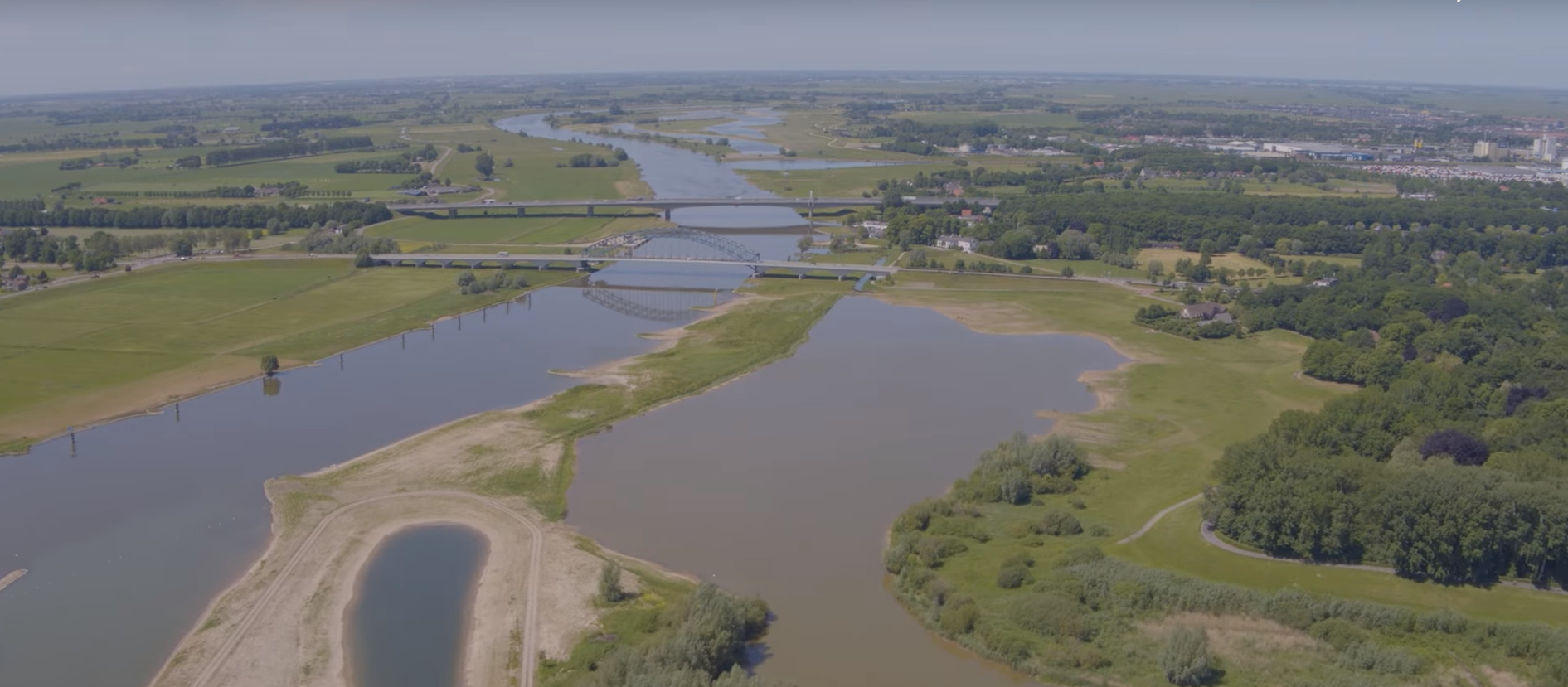 The Old and New IJssel bridges near Zwolle